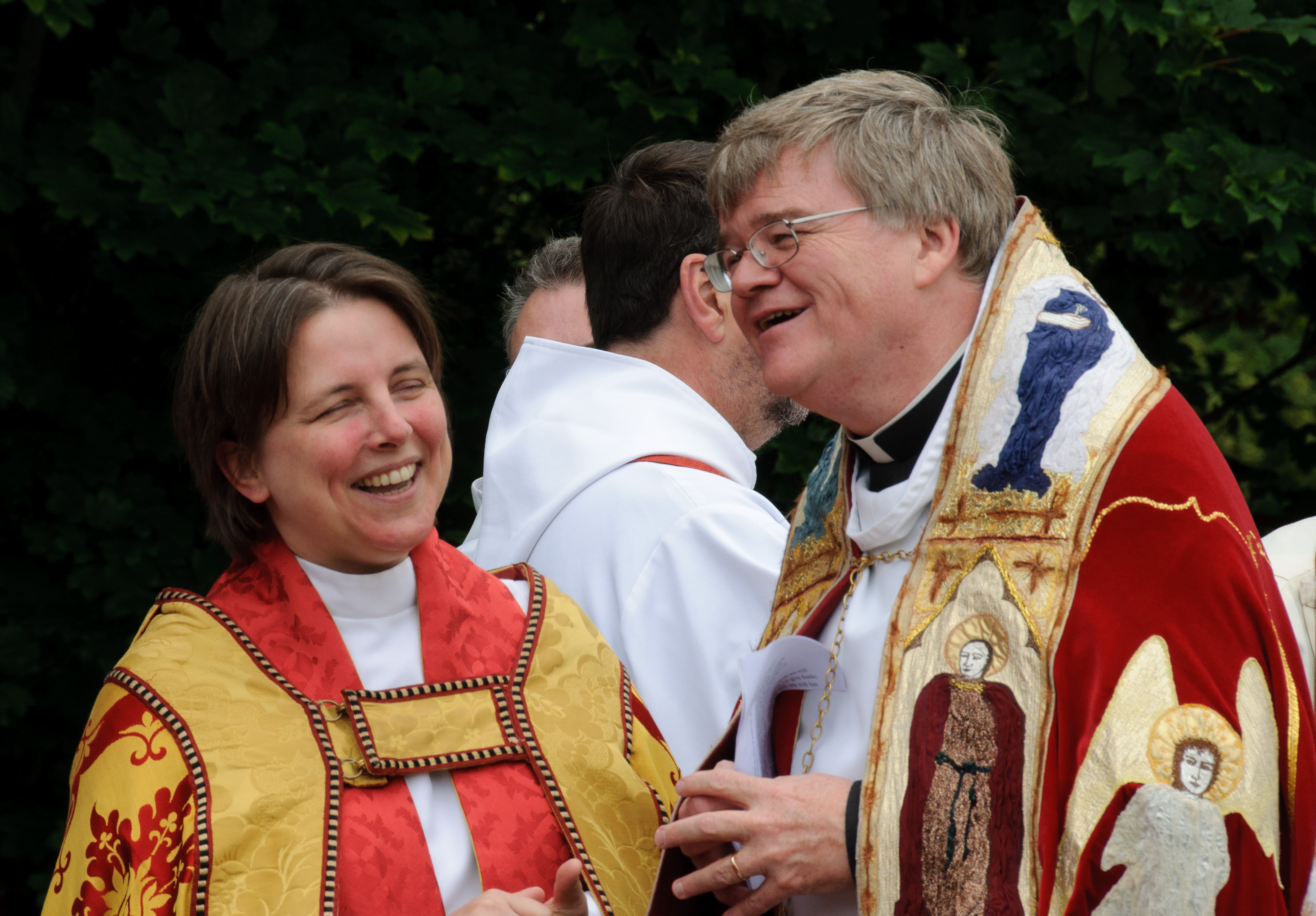 The Revd Lucy Winkett and The Very Revd Jeffrey John